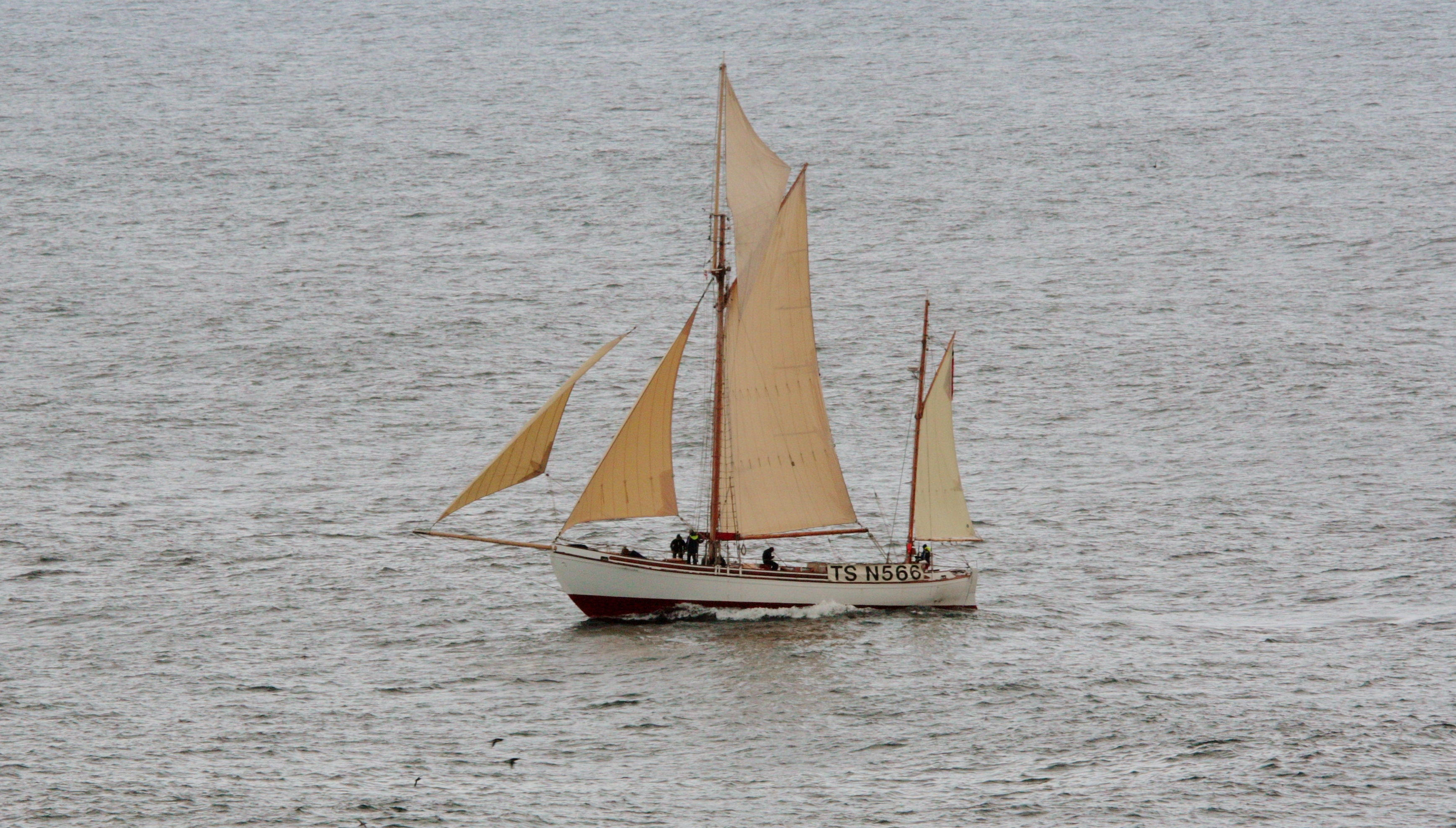 Off Sumburgh Head